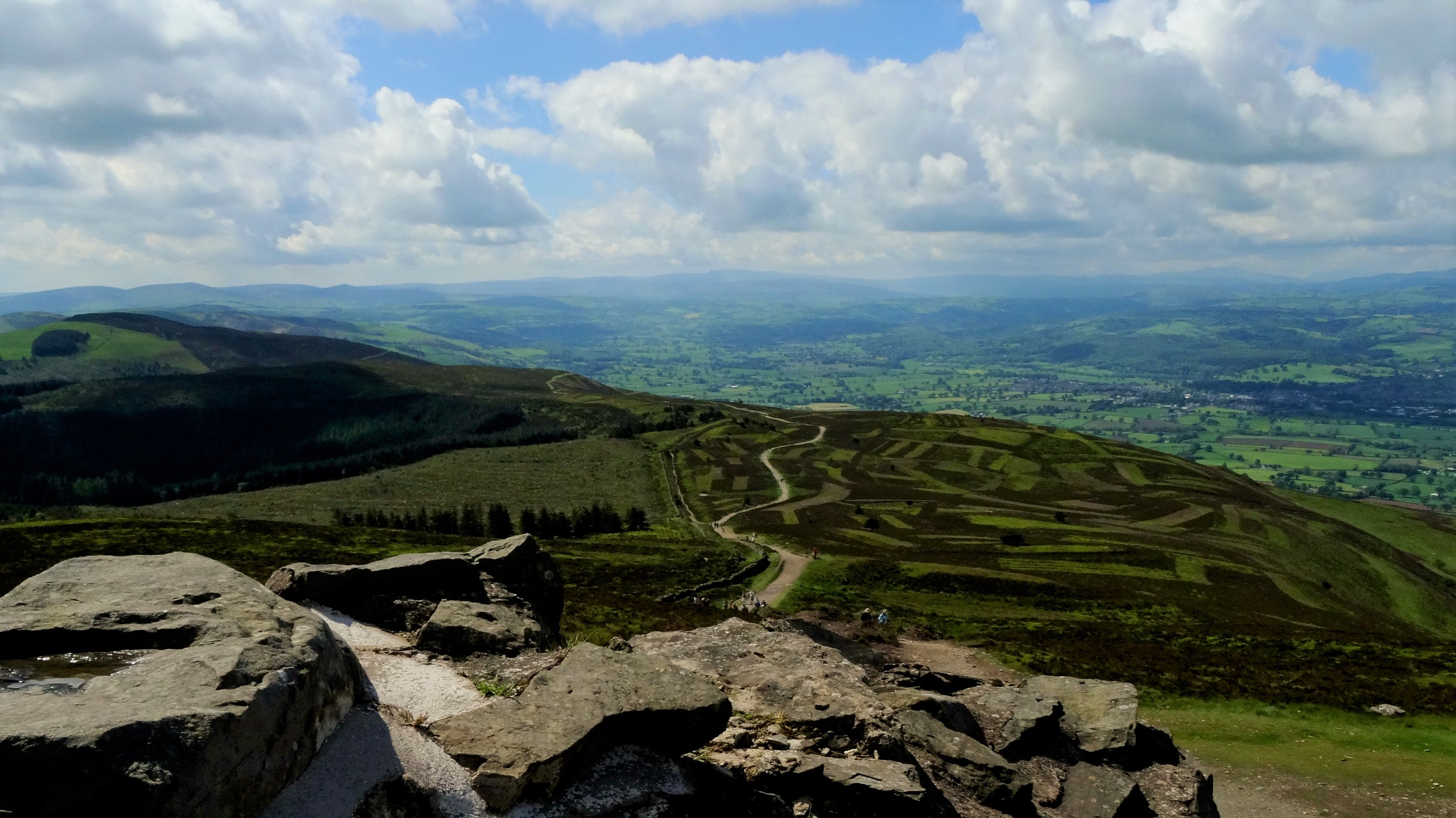 View from Jubilee Tower at Moel Famu summit